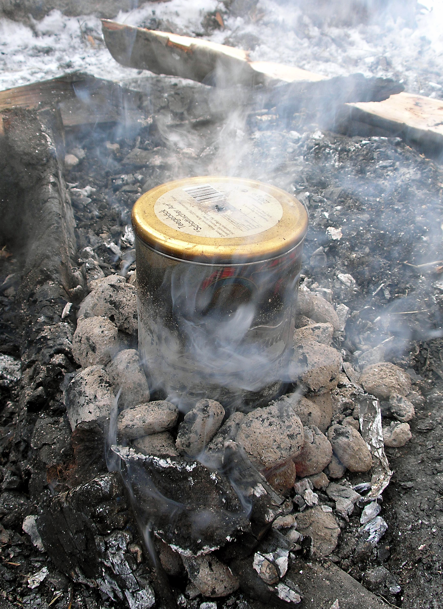 Modern way of producing birch bark tar in a single pot: The birch bark is heated unter airtight conditions, the final product consists of tar and the ashes of the bark. The hole in the can should be stoppered (e.g. by a thin sharpened stick) as soon as the can is withdrawn from the heat source and allowed to cool. In this way, oxidation of the tar is prevented.